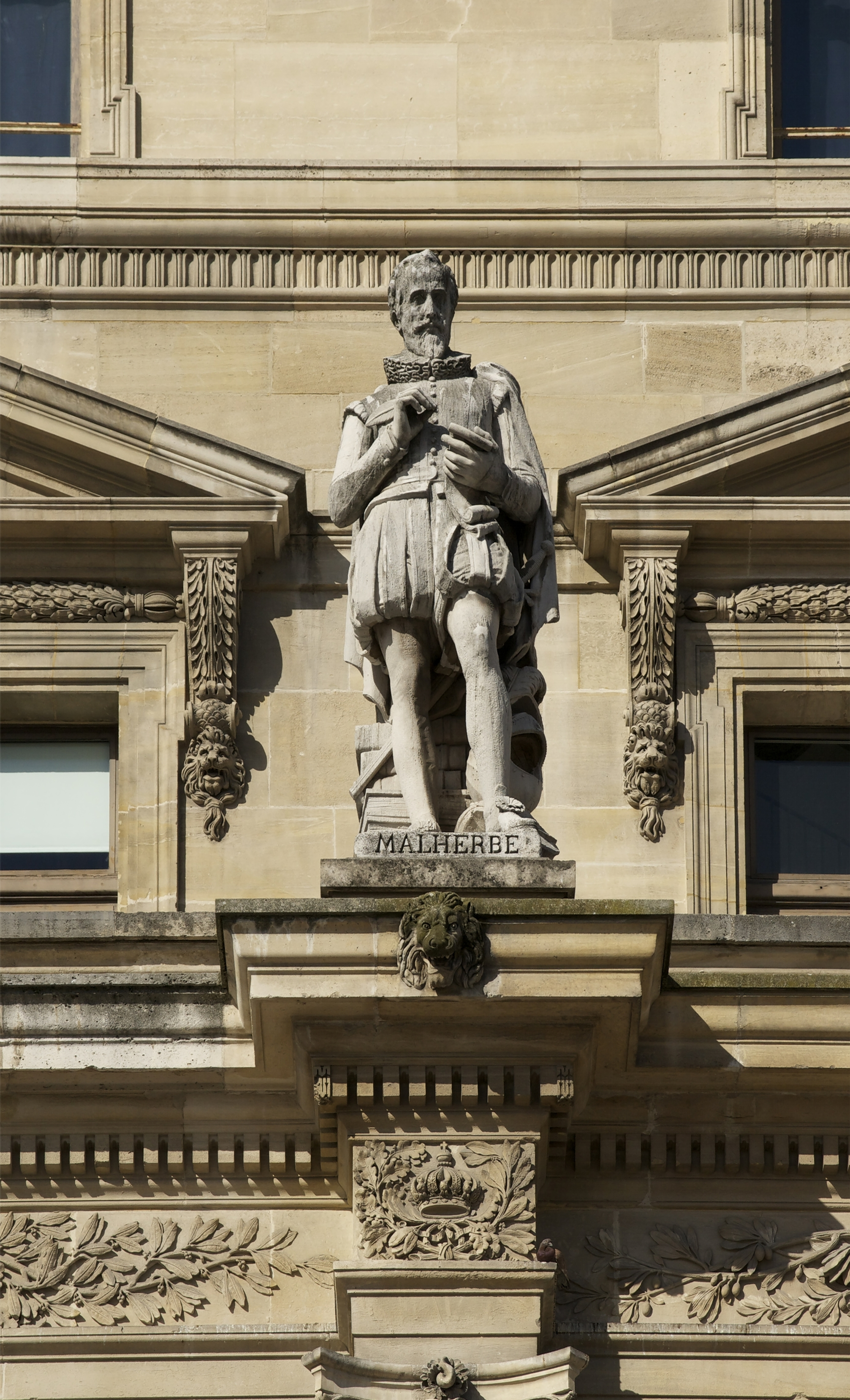 Statue of François de Malherbe, by Jean-Jules Allasseur, ca. 1853, Napoléon Courtyard, Louvre palace, Paris, France.